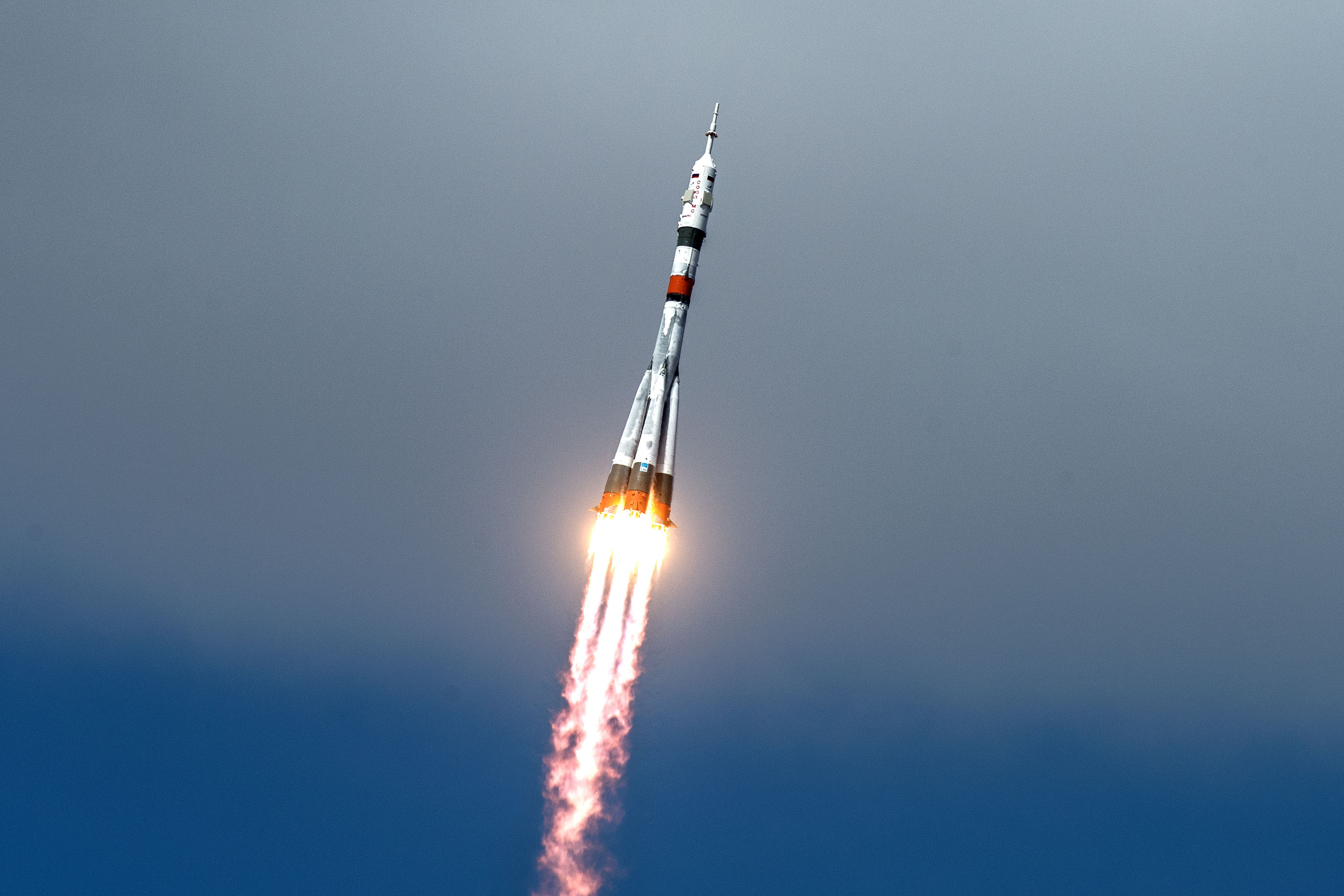 Expedition 63 Launch - The Soyuz MS-16 lifts off from Site 31 at the Baikonur Cosmodrome in Kazakhstan Thursday, April 9, 2020 sending Expedition 63 crewmembers Chris Cassidy of NASA and Anatoly Ivanishin and Ivan Vagner of Roscosmos into orbit for a six-hour flight to the International Space Station and the start of a six-and-a-half month mission.